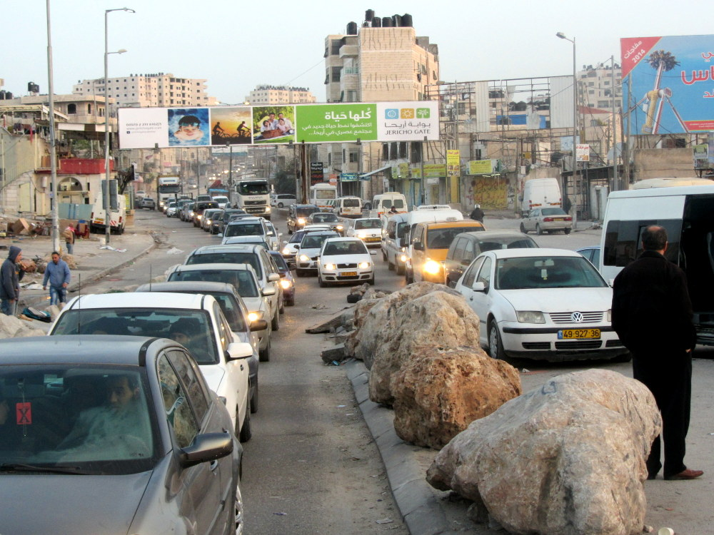 Traffic jam in front of Qalandiya checkpoint, 05:50 AM. Residents of neighborhoods left on the other side of the barrier on their way to work in Jerusalem.